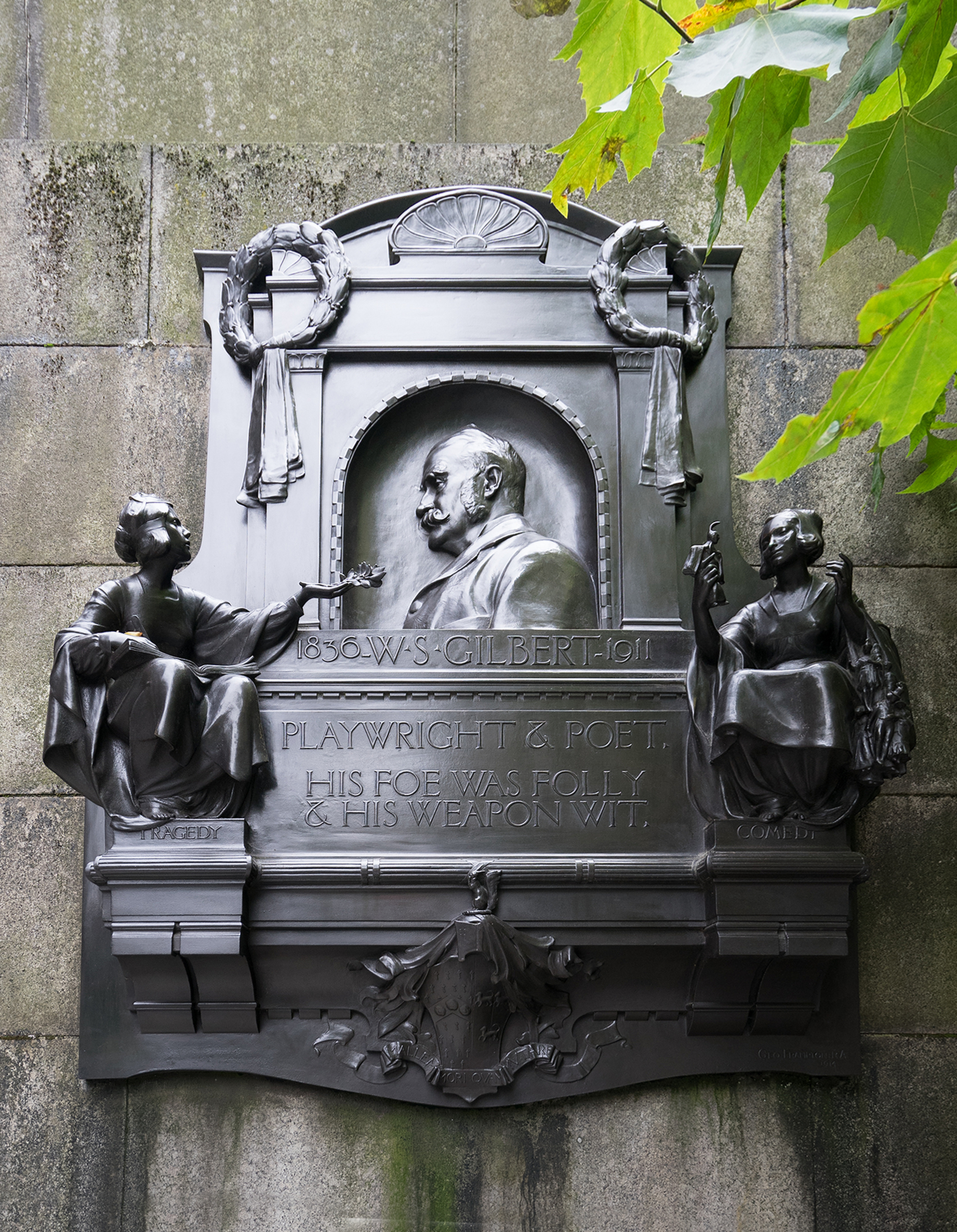 Memorial to W. S. Gilbert on Victoria Embankment, London. Near Embankment Pier. Yet another perspectice-corrected version for the Graphics Lab.